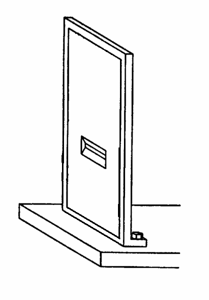 Stationary single-slit diffraction experiment